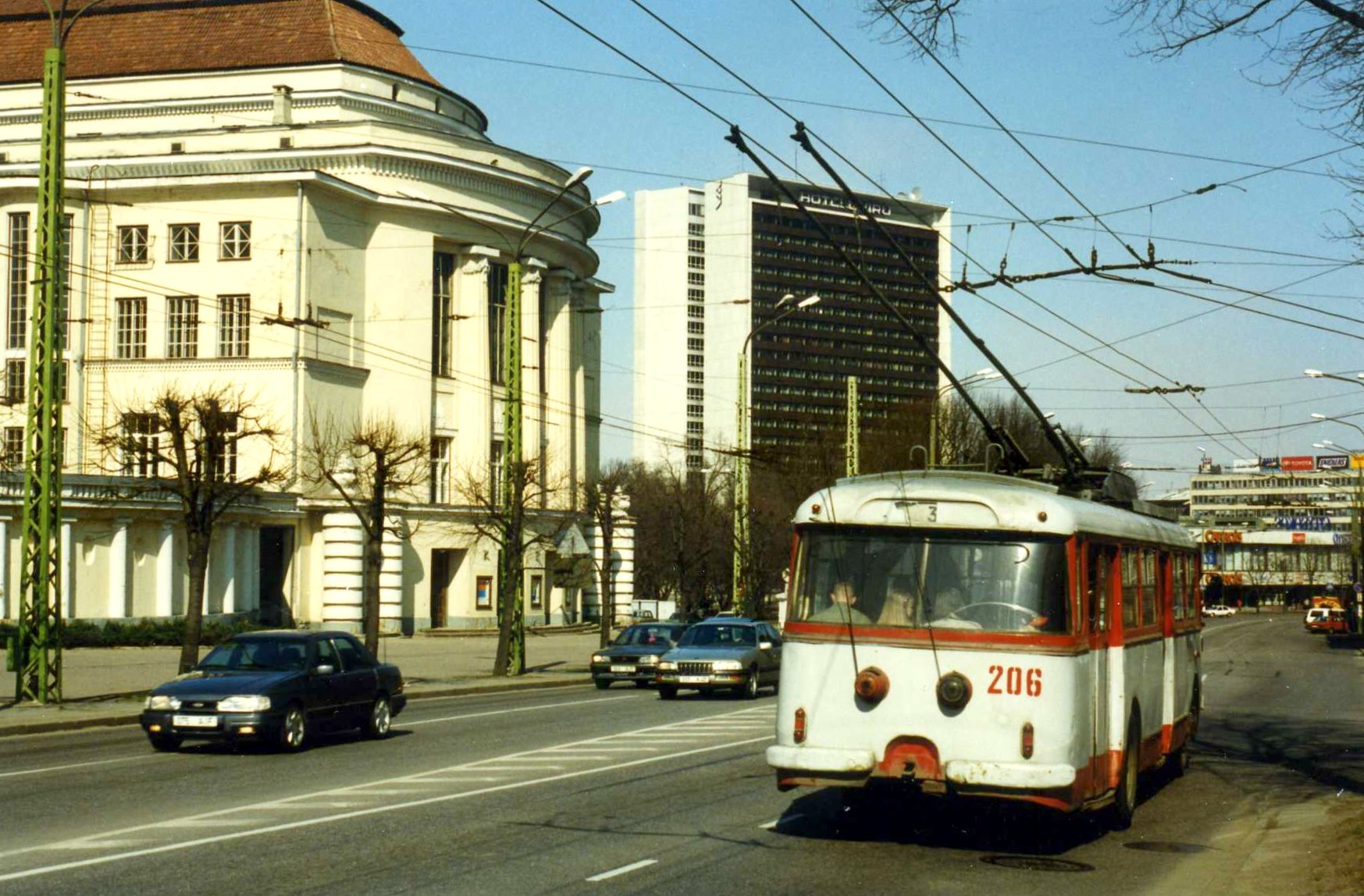 Skoda 9Tr No. 206. When it was deployed in Tallinn in 1983, it was new to TTTK (Tallinna Trammi-ja Trollibussikoondis), but one of the last of the 9Tr models deployed in the city. No. 206 was finally withdrawn from service in 1999.[1] By the year 2000, all the remaining 9Tr trolleys were decommissioned. In 1996, only about ten were in operation, including the venerable 92-numbered two-door model. Route No. 3 connects Mustamäe and Kaubamaja. In the background: the "Estonia" theatre and concert building; Hotel Viru. In 1996, the lower floors of the building housed the "Stockmann" department store (sign at the top of the high-rise); and the Carrols fast food restaurant. The Carrols brand did not last very long. Either the Carrols restaurant left, or was converted into a Finnish-owned Hesburger restaurant. (For a while, Hesburger operated Carrols-branded fast food restaurants in Finland, but eventually converted nearly all of them to Hesburgers.) Further back stands the "Teenindusmaja" building (eng.lit. Service House), which throughout 2002/2003 was reconstructed and converted into a hotel.